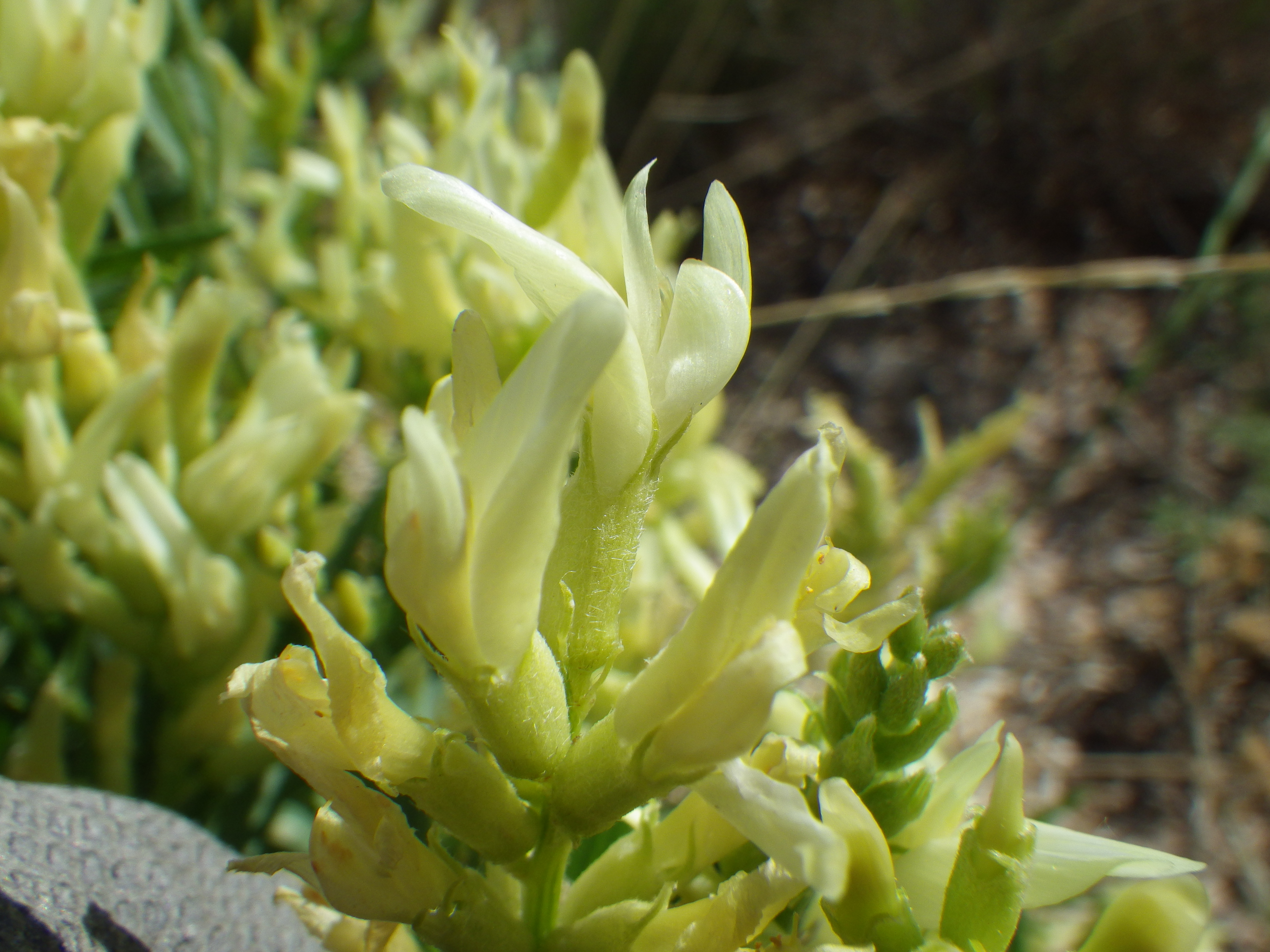 An uncommon Montana species that in the Pryor Mountain region was not observed in the sagebrush steppe but was robust along a gravel road (the west end of the Helt Road).